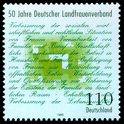 Stamp from Deutsche Post AG from 1998, 50th anniversary of Deutscher Landfrauenverband